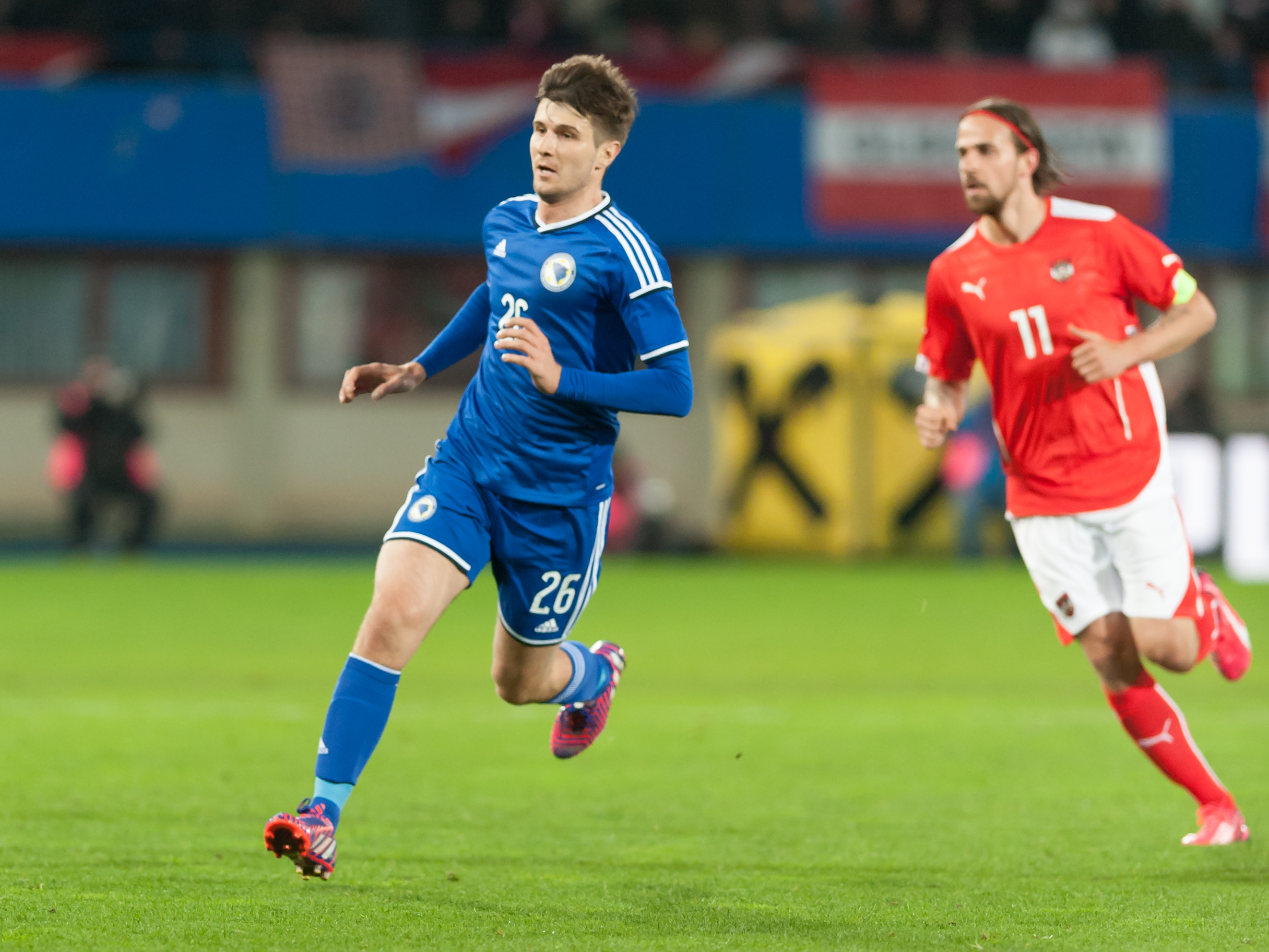 International friendly Austria vs. Bosnia and Herzegovina, 2015-03-31, Vienna